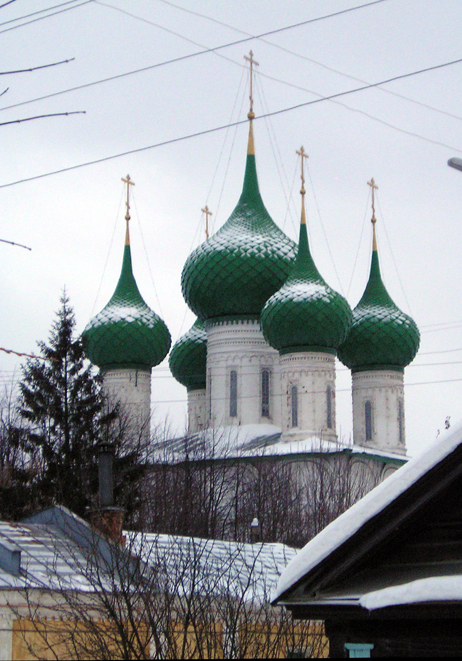 Fyodorovskaya Church in Yaroslavl (1682-87). View from the north-west.